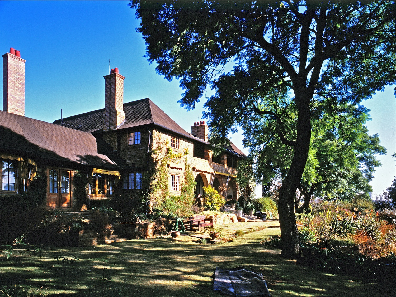 This media shows a South African Protected Site with SAHRA file reference 9/2/228/0153.